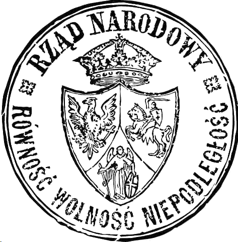 Seal of the Polish National Government (January Uprising)